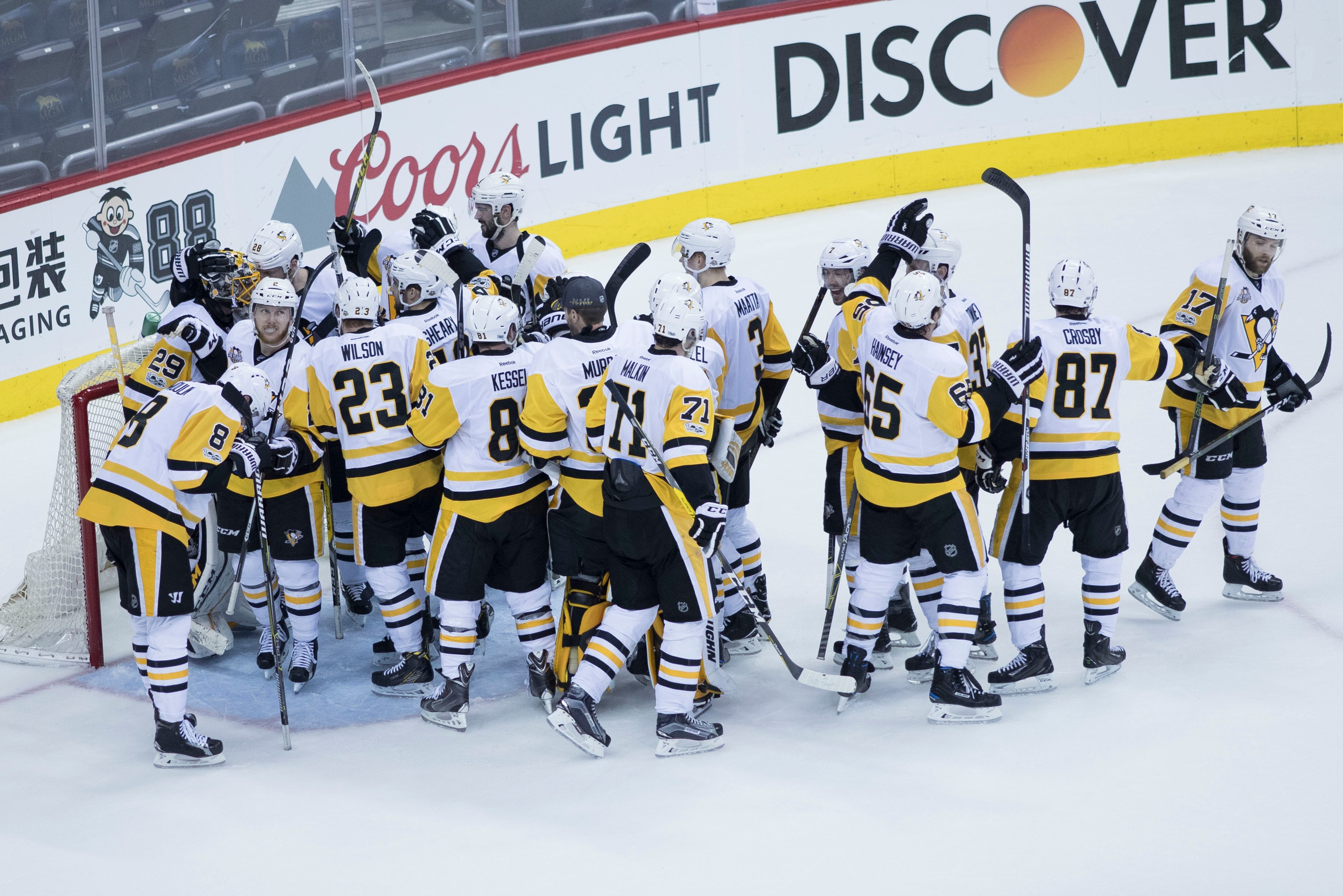 Penguins at Capitals 5/10/17